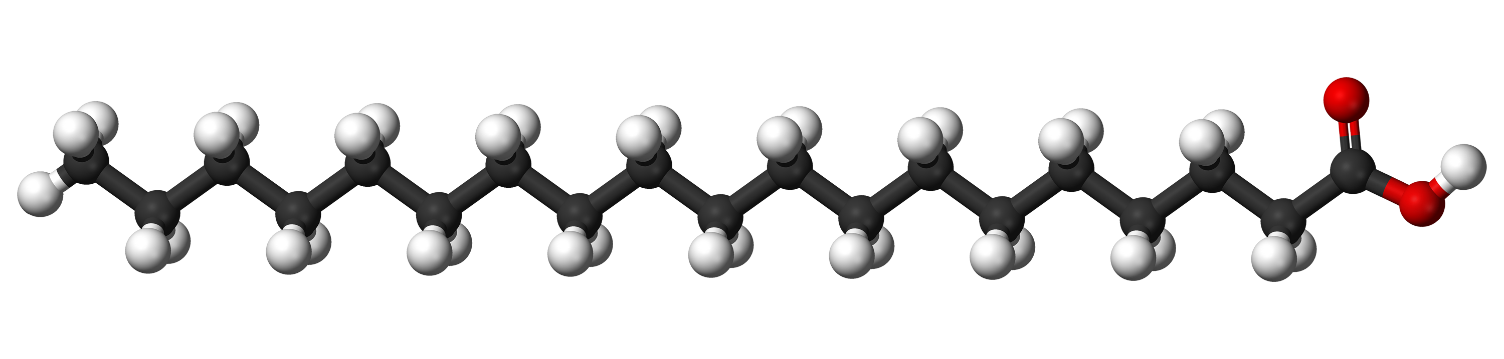 Ball-and-stick model of the nonadecylic acid molecule (also known as Nonadecanoic acid), a saturated fatty acid with 19 carbon atoms.